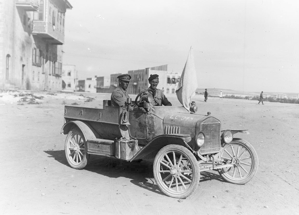 IWM caption : Captain Macintyre, M. C. of the 7th Light Car Patrol, left British lines at 10 a. m. on 23rd October 1918, in a Ford car and under a white flag, with a letter demanding the surrender of Aleppo. He returned in the afternoon, the Turkish Commander having refused to surrender.